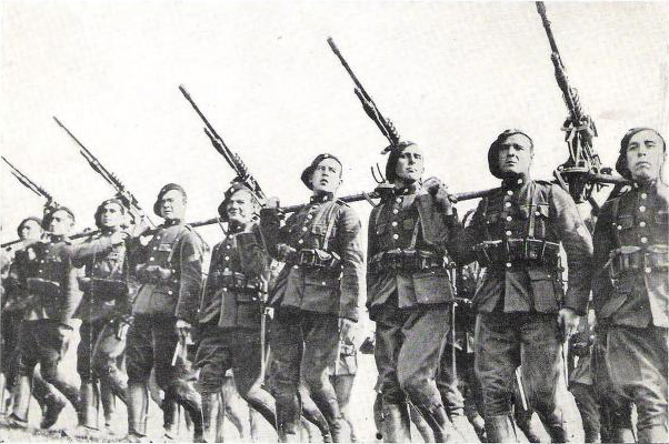 The elite Chasseurs Ardennais, circa World War II